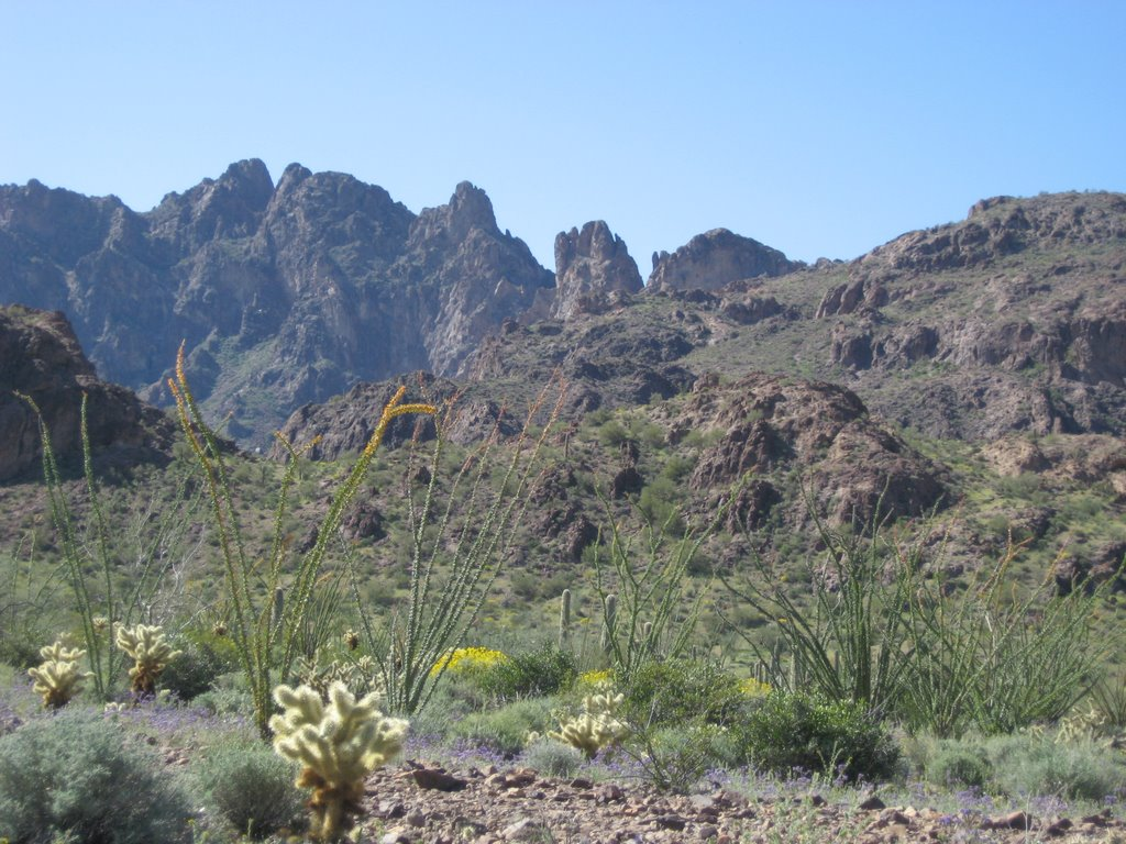 Kofa Mountains, southwestern Arizona